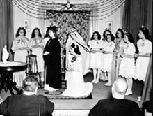 A theater play of the Our Lady of Acadia College in Bouctouche.